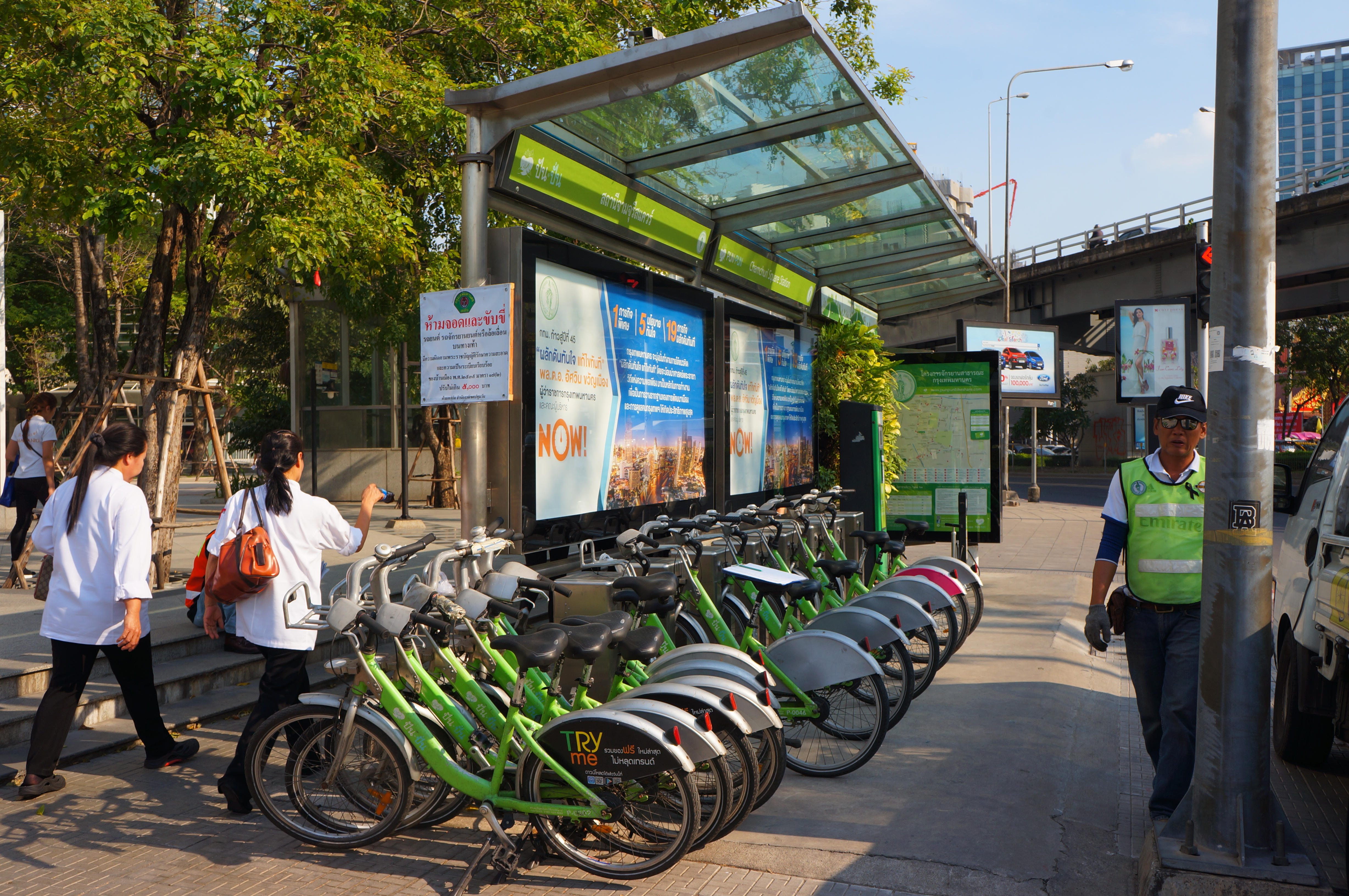 201701 Pun Pun rack point at Chamchuri Square near exit 2 of Sam Yan Station